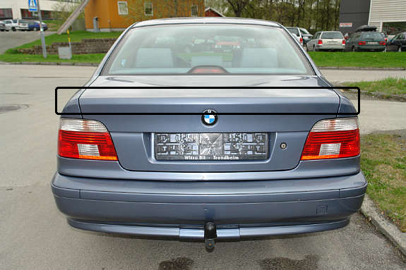 BMW, typisk kofferlokving